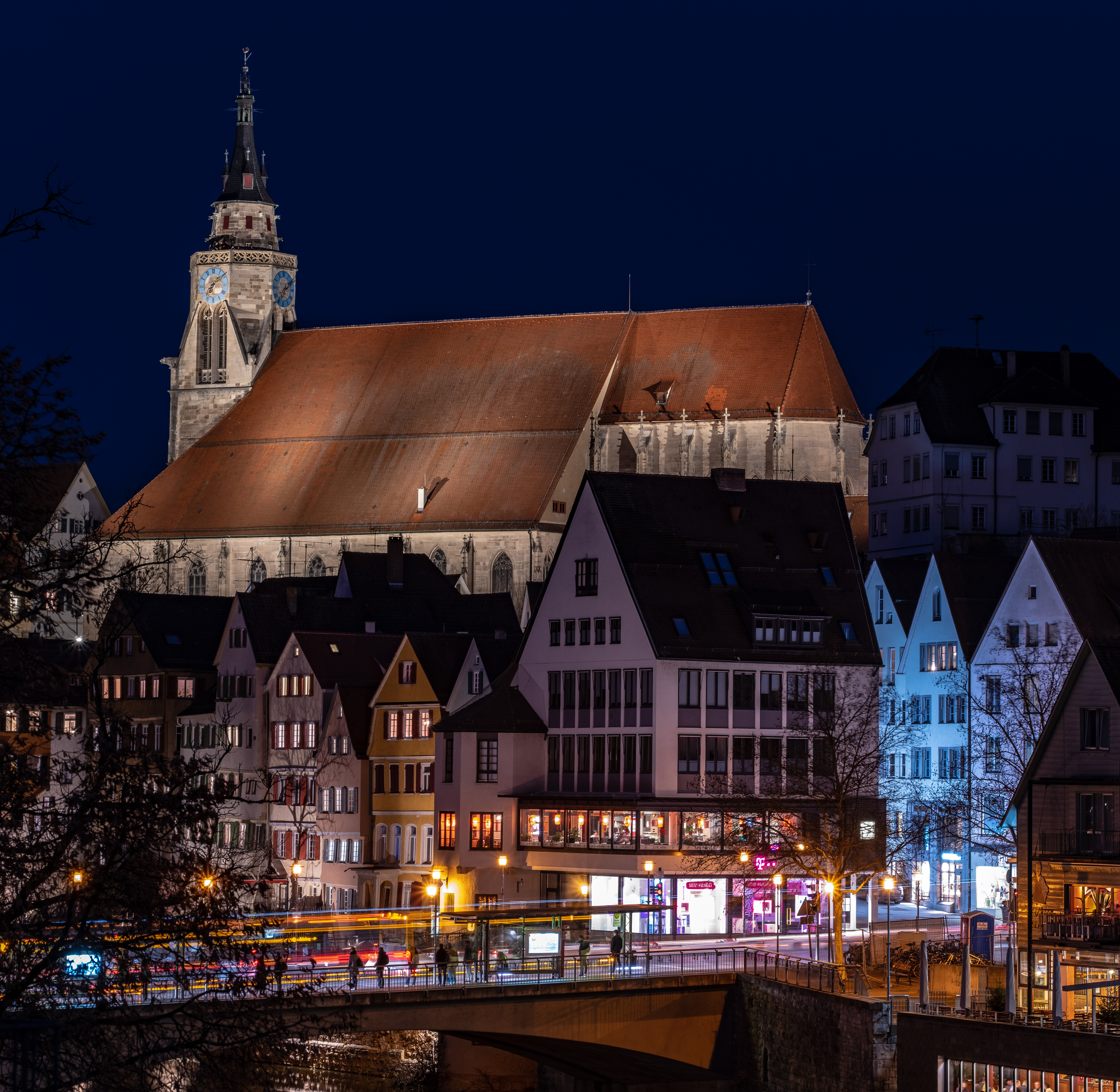 St. George's Collegiate Church, Tübingen, Baden-Württemberg, Germany